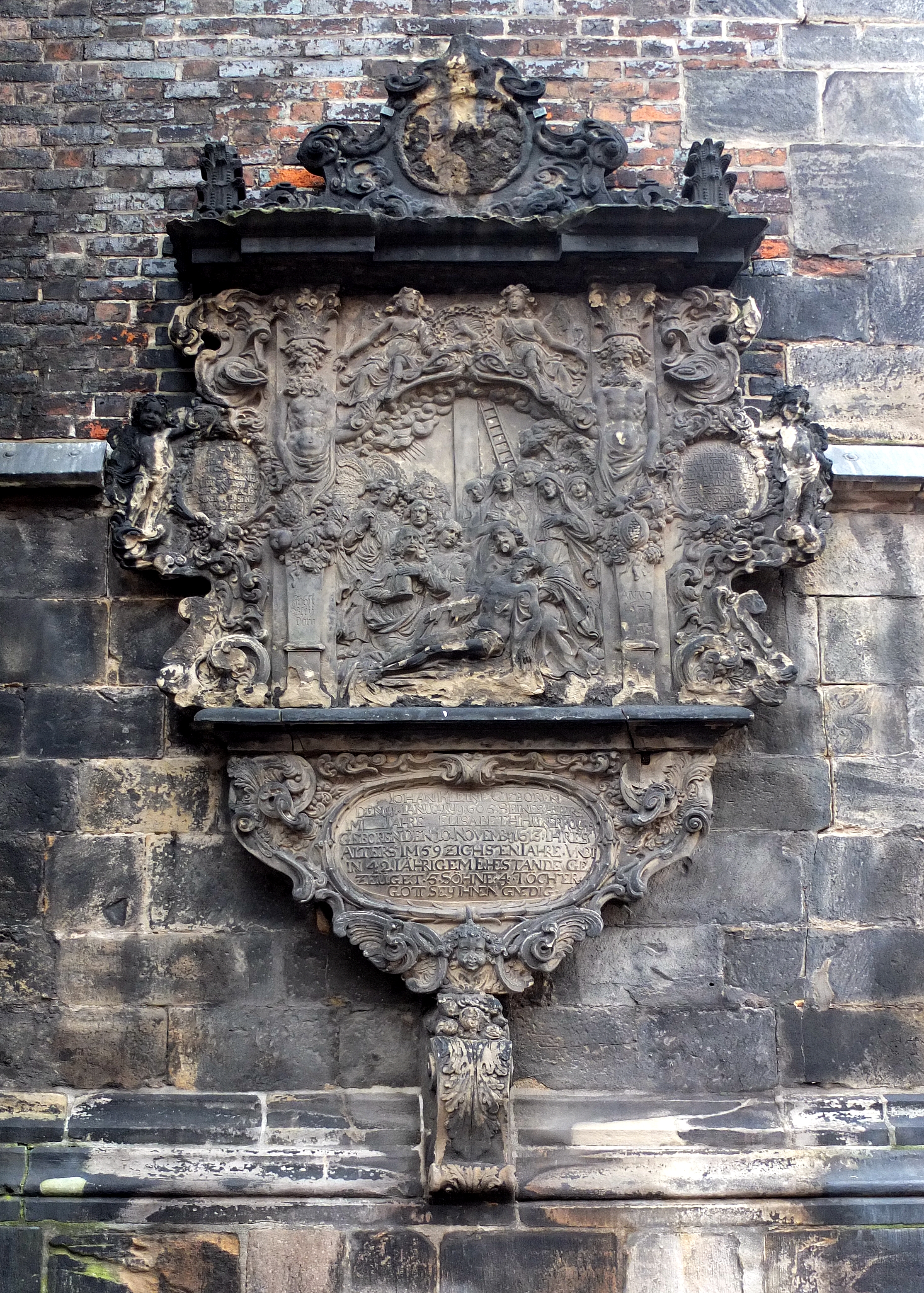 Marktkirche Hanover, Epitaph for Johann Kleine († 1672), by Jobst Bleidorn (1639-1677)